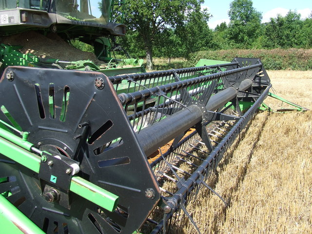 The Business End. The front end of a Deutz-Fahr combine harvester parked up for the weekend near to Edwardstone, Suffolk.